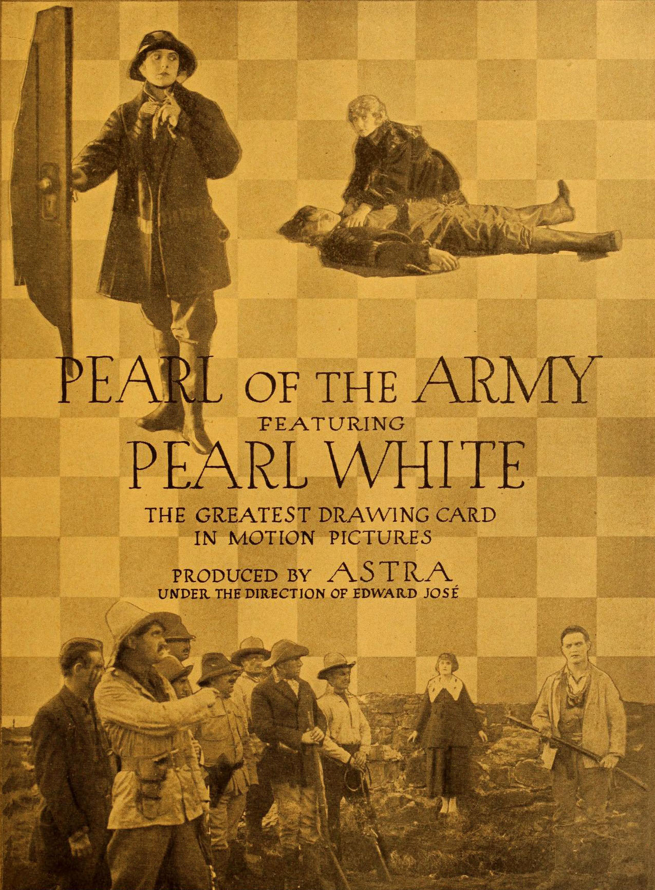 Advertisement in Moving Picture World for the film Pearl of the Army (1916).